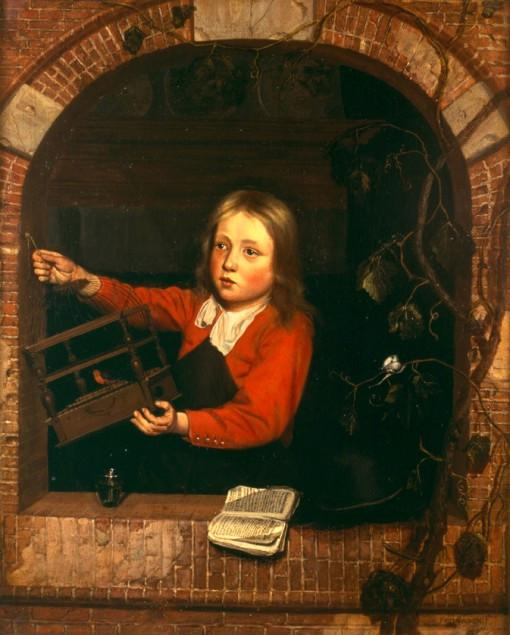 Jan Adriaensz. van Staveren. Boy with birdcage.